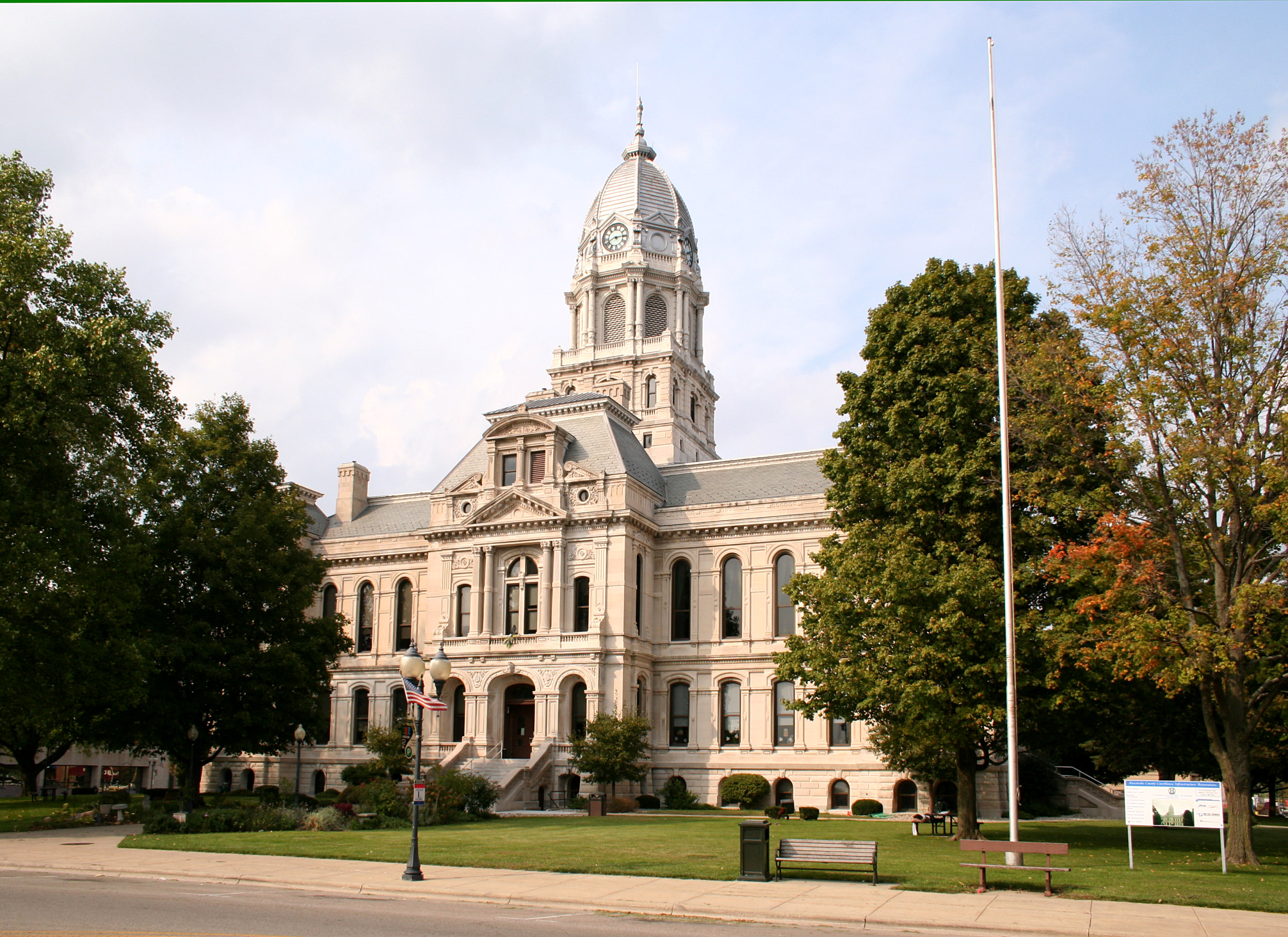 Old county courthouse in Warsaw, Indiana.